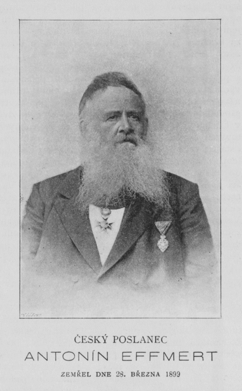 Photo of Antonín EffmertAntonín Effmert (1832-1899), Czech entrepreneur and politician